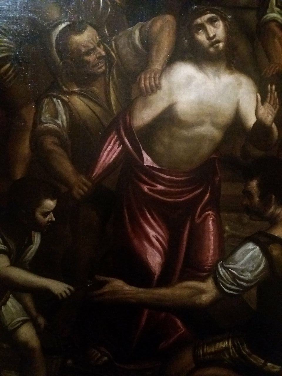 "Christ mocked" by Pier Francesco Piola